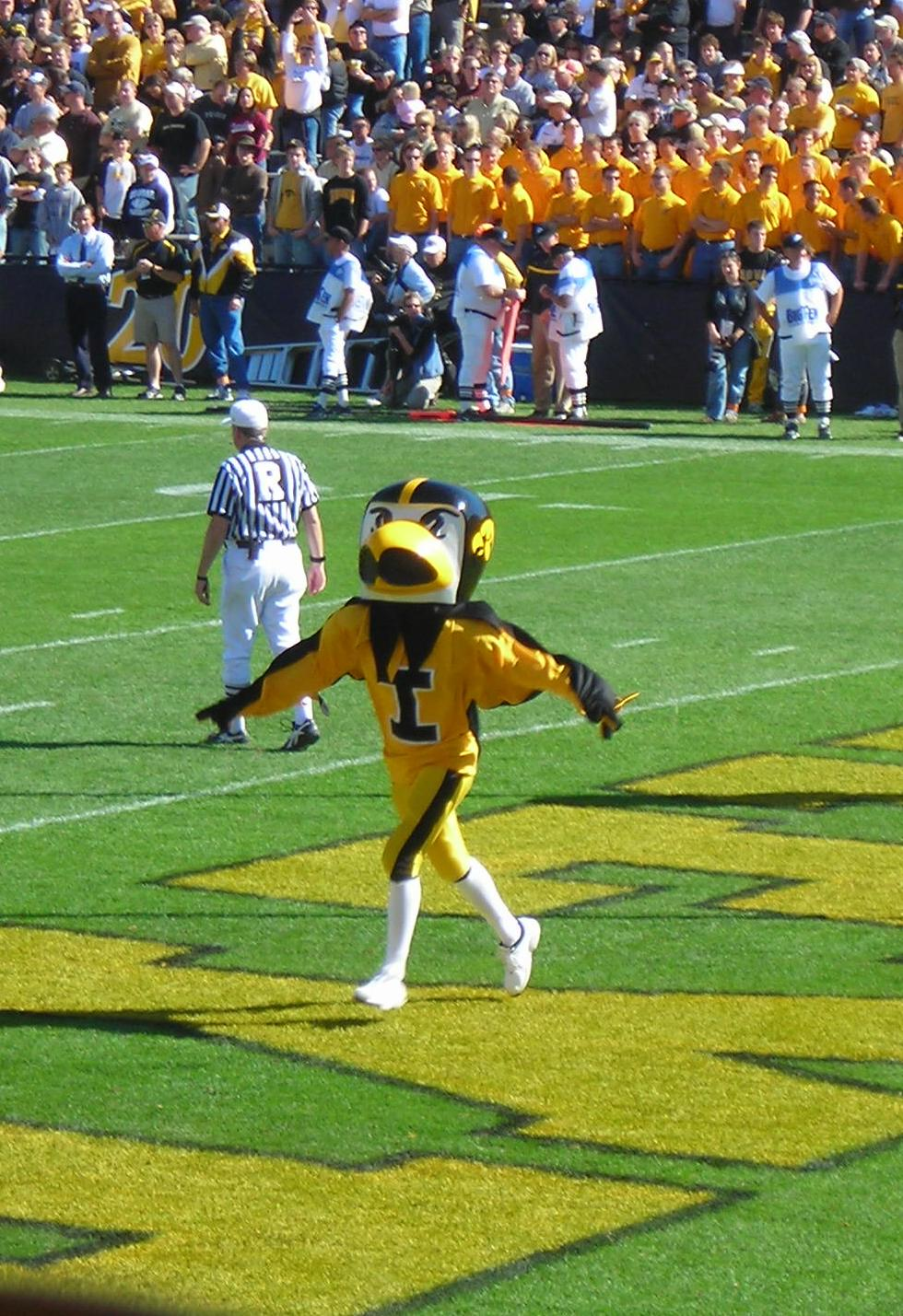 Herky the Hawkeye with white-bearded Herky, which is the Alumni Herky.